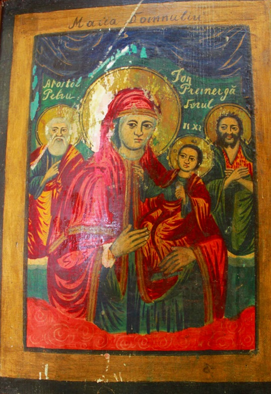 Sain Mary Icon from Holy Trinity Monastery in Avdella with Romanian Inscription